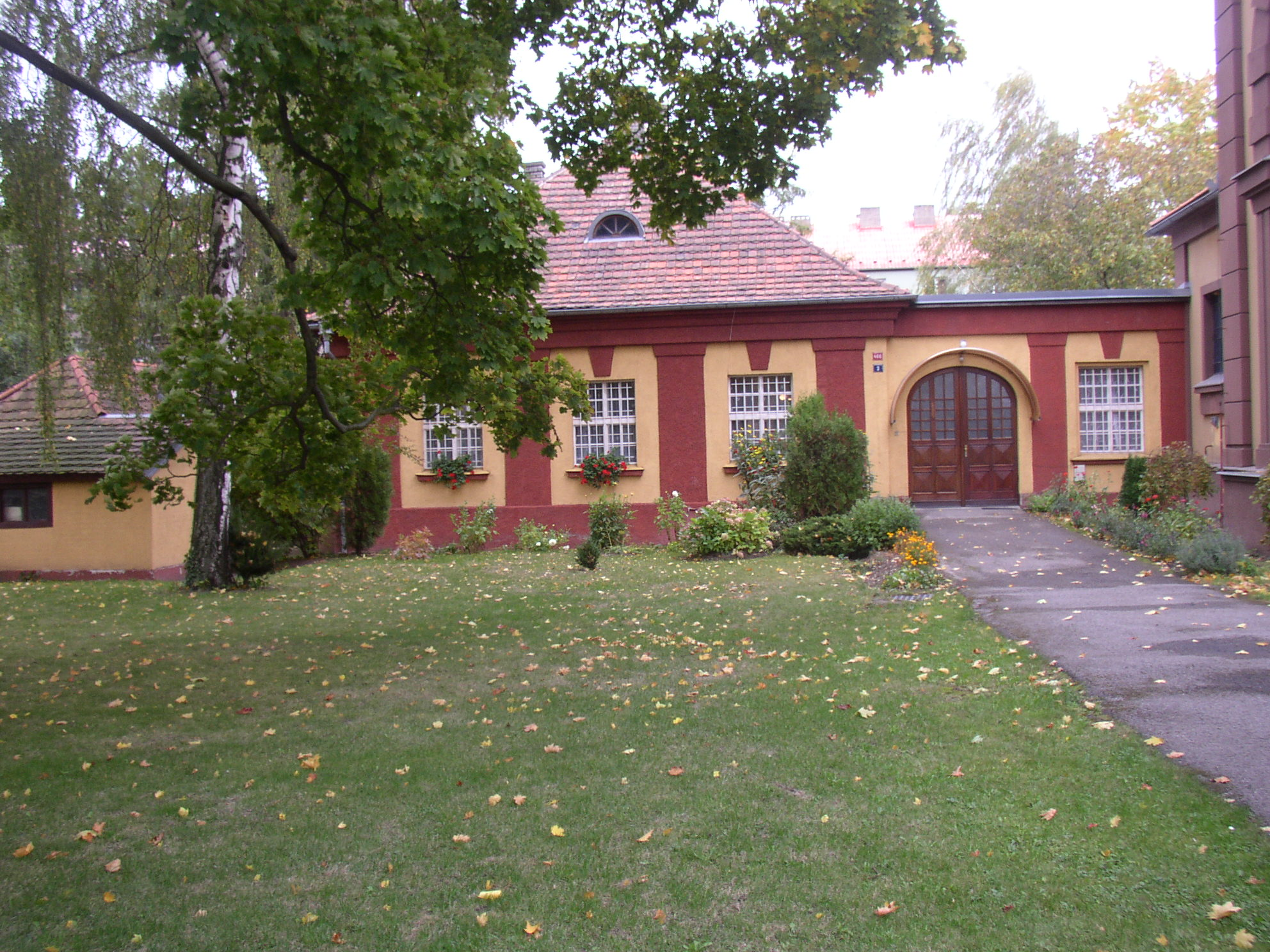 Rectory (466 Vašíček Street) next to Roman-Catholic St. Wenceslaus church in Rozdělov suburb of Kladno, Kladno District, Central Bohemian Region, Czech Republic. Listed Cultural Monument of the Czech Republic. Front view from the west.